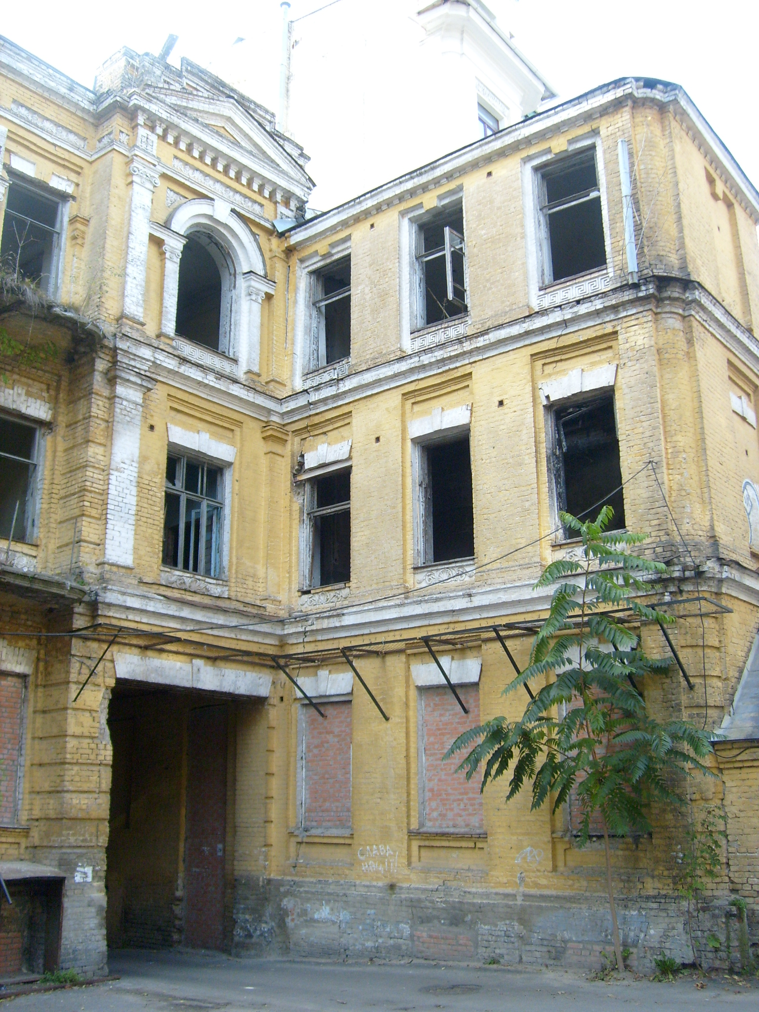 15-a Yaroslaviv Val, Kiev where Ukrainian-American pioneer of aviation Igor Sikorsky lived with his parents in 1904-1912[1]. There in the courtyard he constructed his first aircrafts. Today the house is uninhabited and dilapidated. The graffiti in Ukrainian reads, "Glory to the nation!"